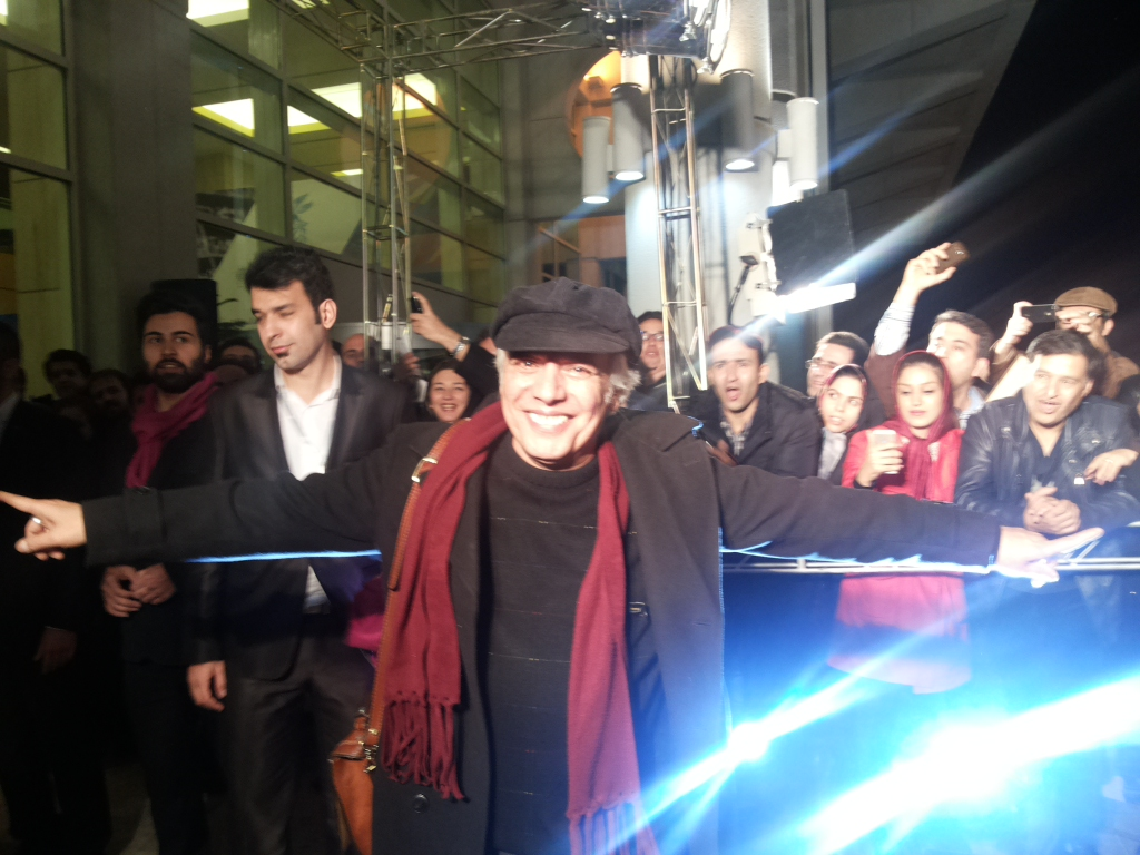 سیروس الوند